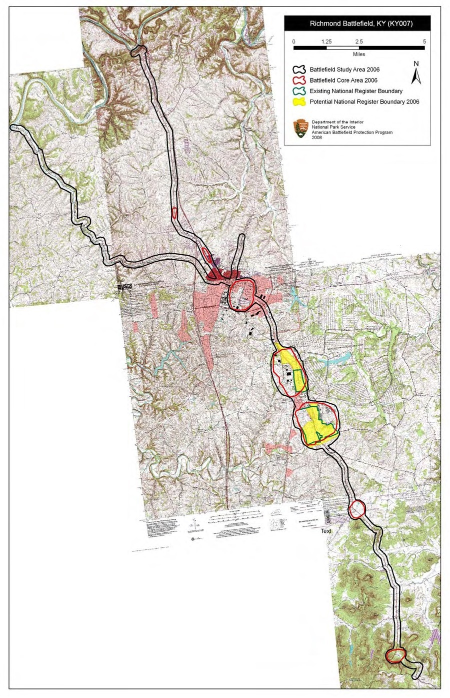 Map of battlefield core and study areas. Revised boundaries include ongoing actions from Morrill on the south to the Kentucky River on the north, and engagement areas in Richmond, at Arlington, and north of Arlington.